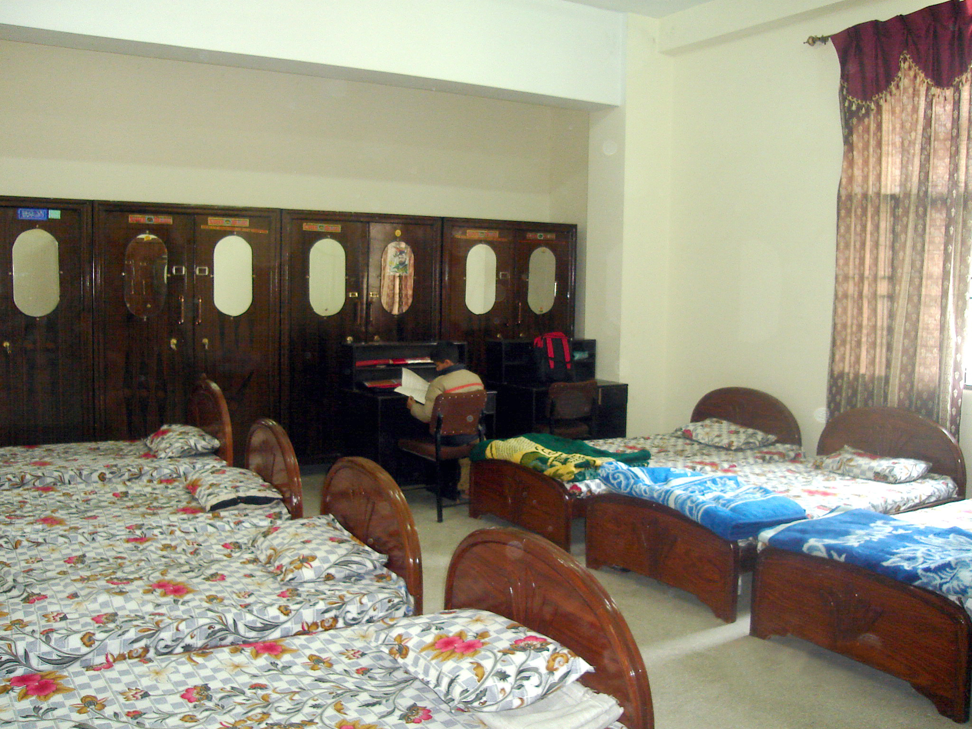 Licensing Policy about Wikipedia This is to clarify that all contents and images of this website can be used with reference of this website on Wikipedia under the free license: Creative Commons Attribution-Share Alike 4.0 International.